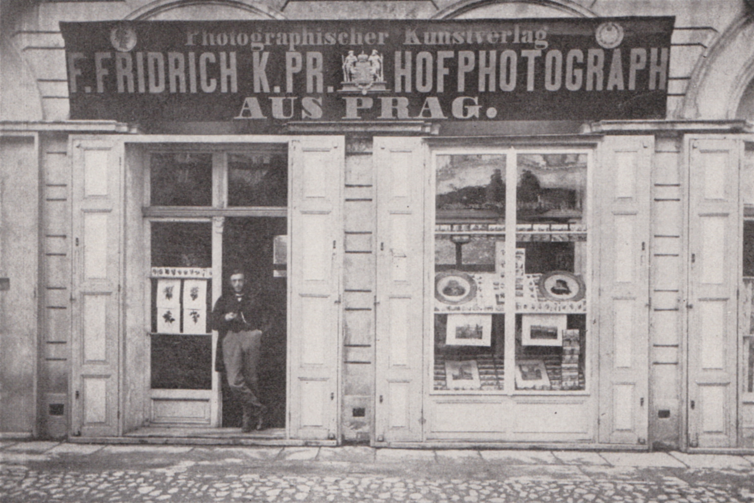 Storefront of the photographic studio of František Fridrich in Karlovy Vary, cca 1865